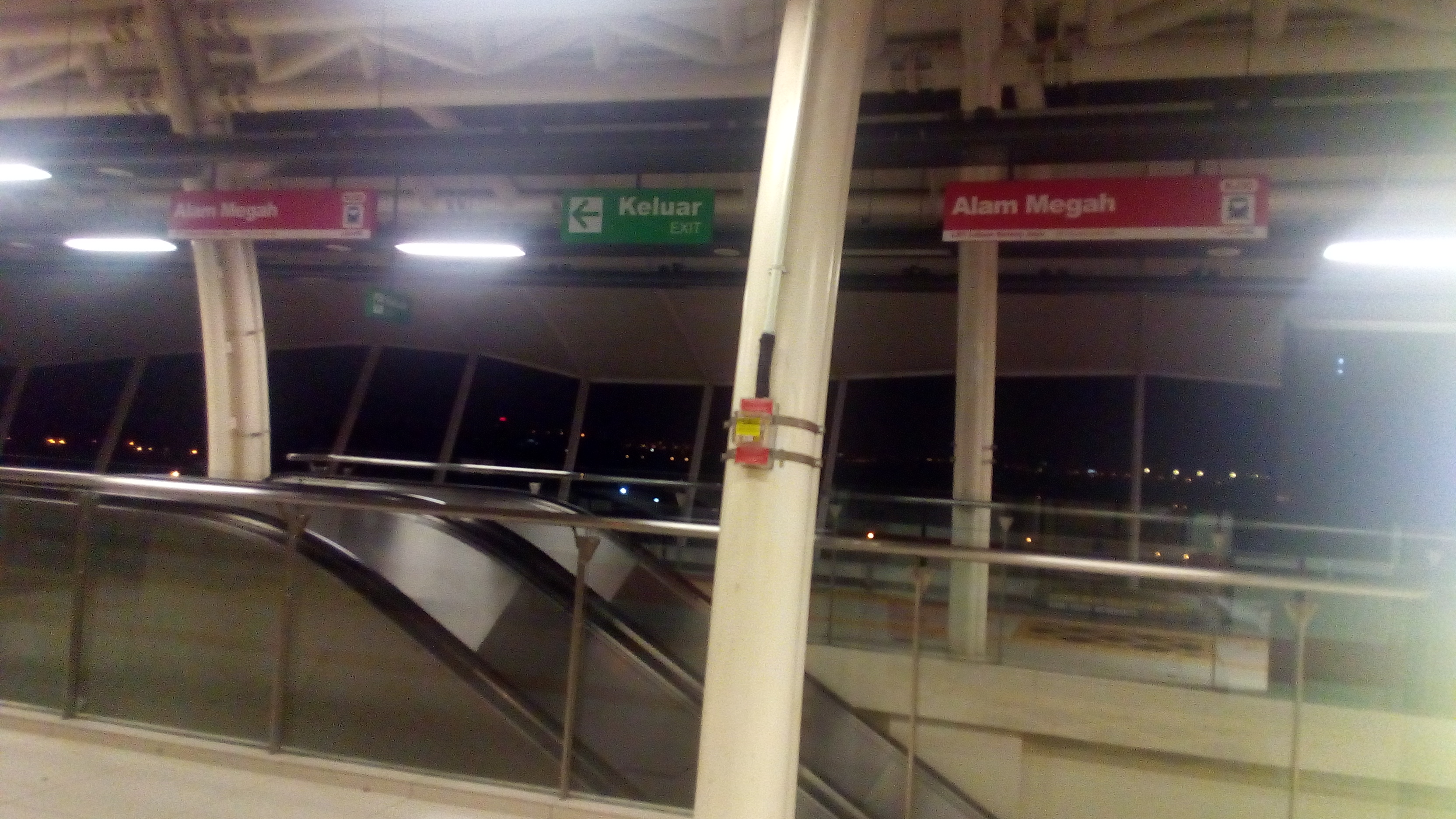 Alam Megah LRT Station